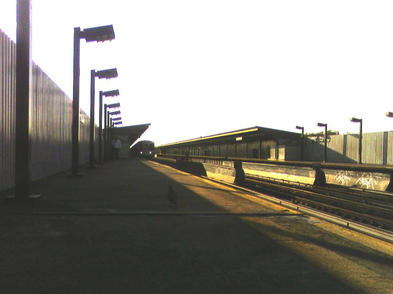 The 88th Street-Boyd Avenue subway station.